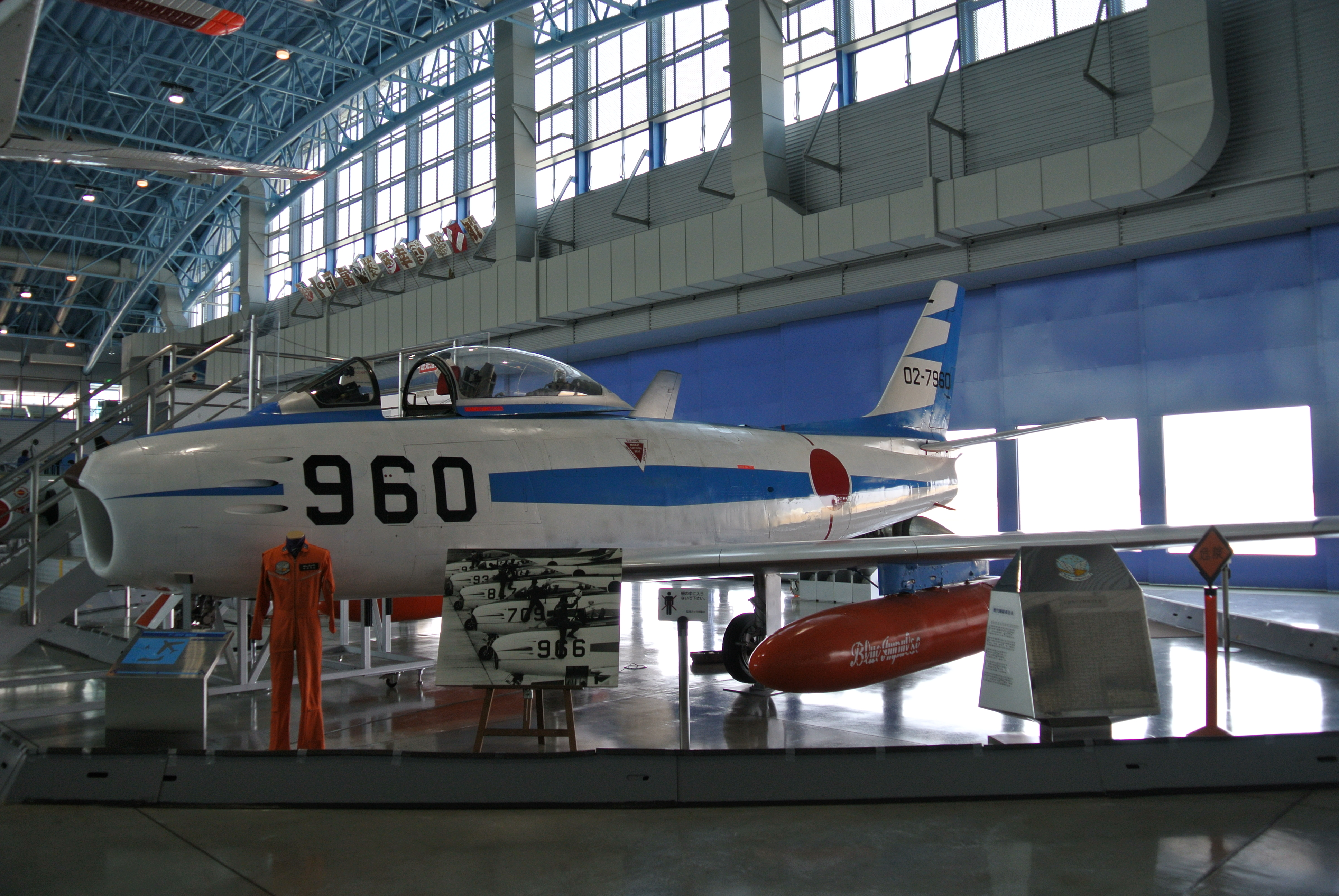 Blue Impulse F86 in the Japan Air Self-Defense Force public relations Hamamatsu Museum.